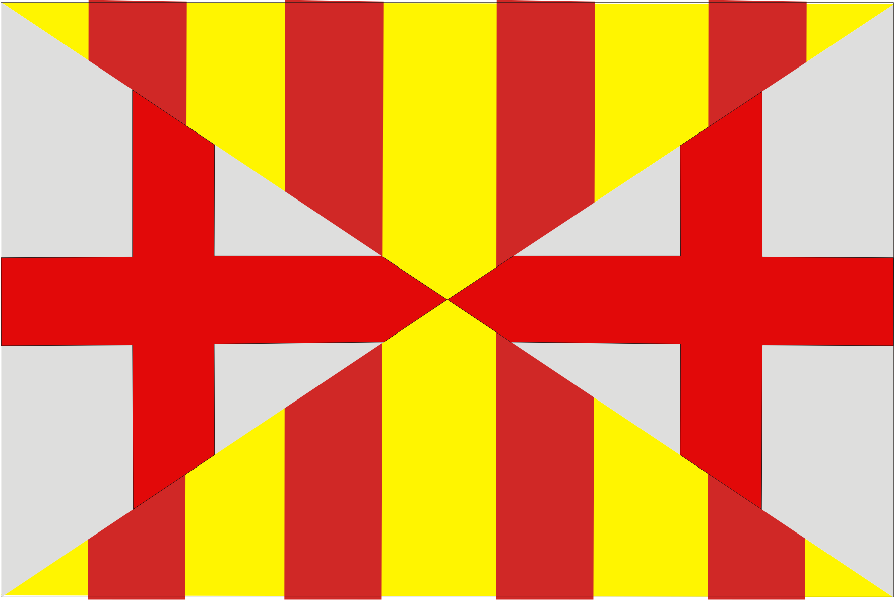 Flag of La Cerdanya